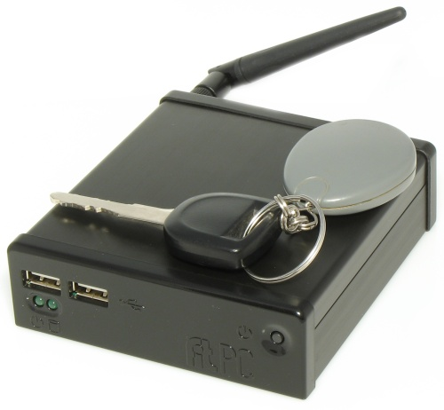 fit-PC Slim with car keys